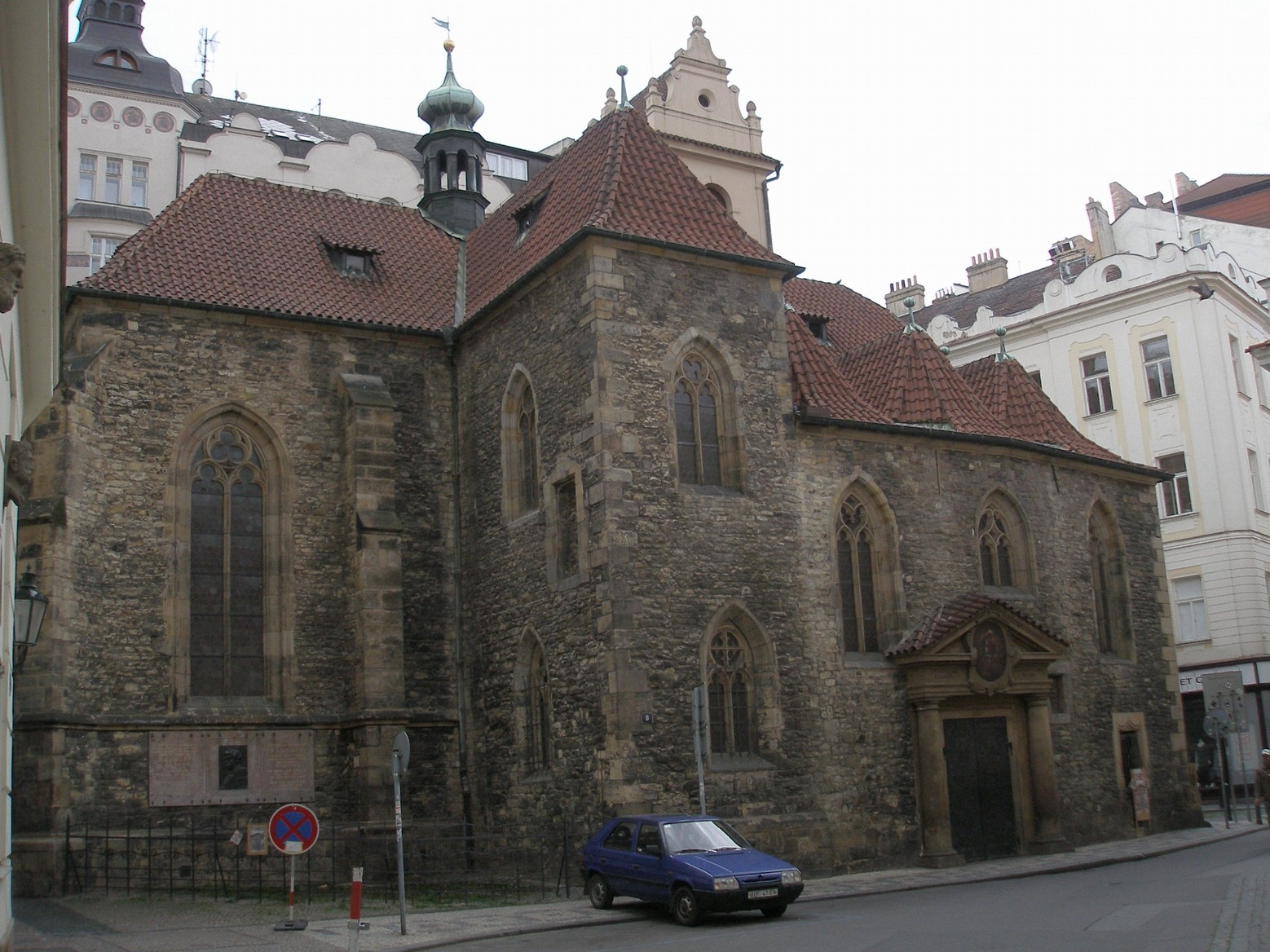 Church of St. Martin in the Wall, Prague, Czechia